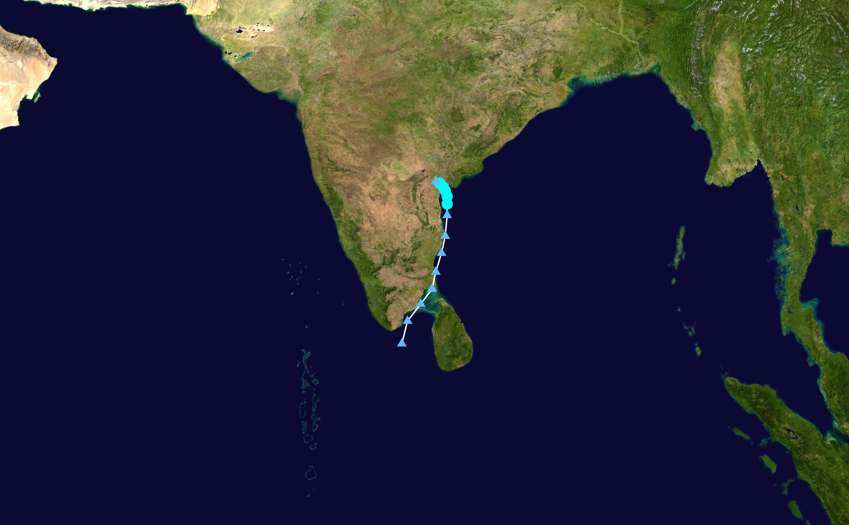 Cyclone Ogni (2006) track. Uses the color scheme from the Saffir-Simpson Hurricane Scale.